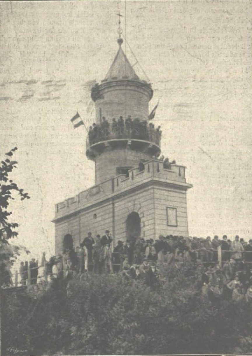 Millennium monument in Kőszeg